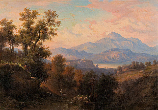 Italian Landscape